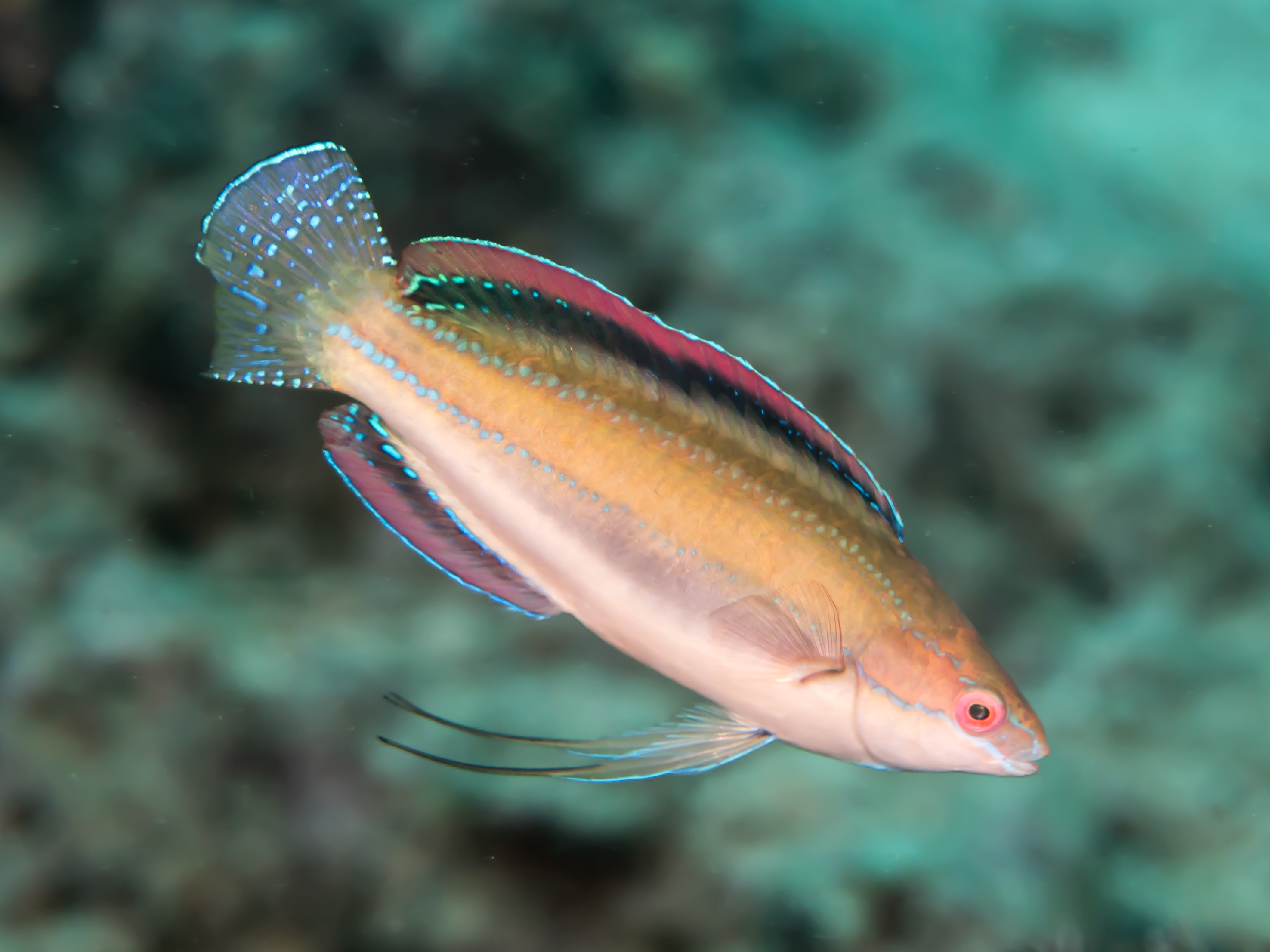 Romblon, Philippines - Threadfin wrasse (Cirrhilabrus temminckii)